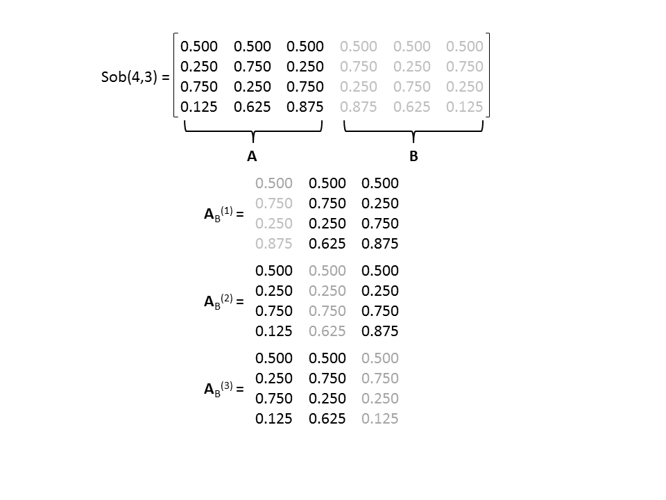 Construction of ABi matrices in monte carlo estimation of sensitivity indices.